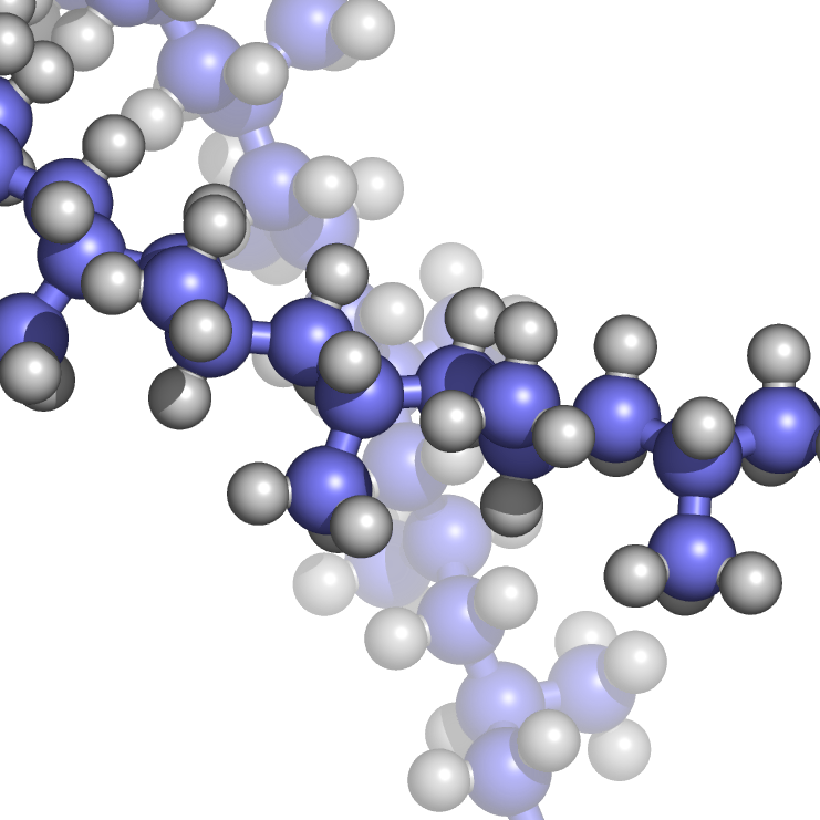 A ball and stick model of syndiotactic polypropene. Rendered in PyMOL by Ilmari Karonen, cropped and made transparent in GIMP.